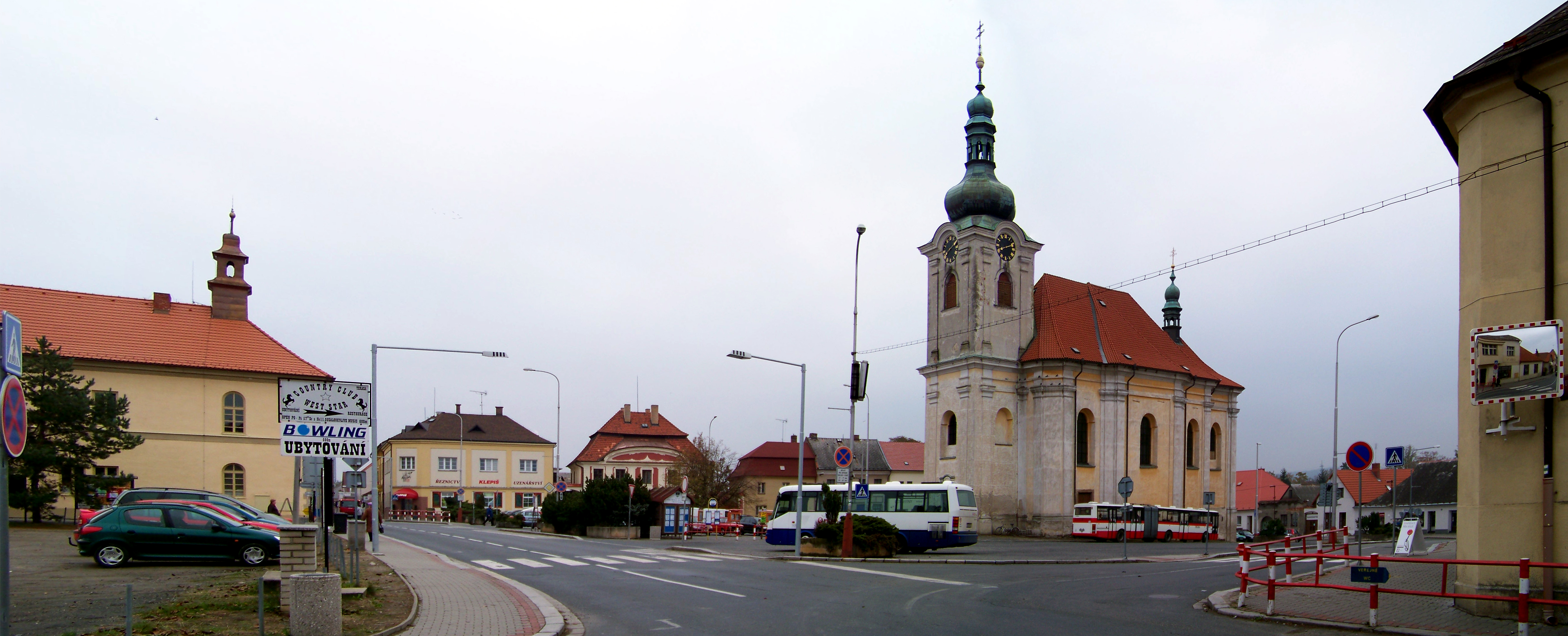 Uhlířské Janovice, Kutná Hora District, Central Bohemian Region, the Czech Republic.